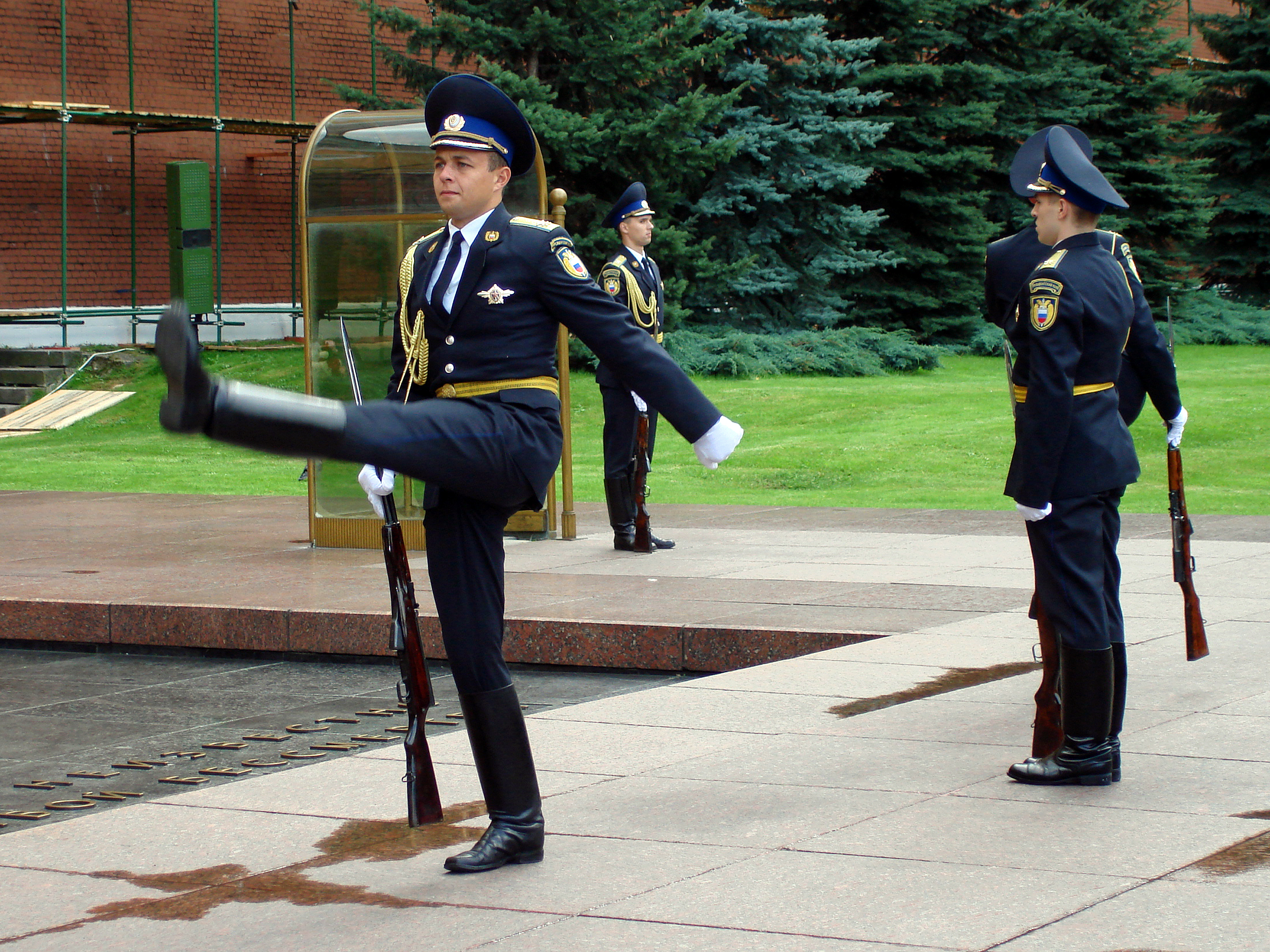 The tomb of the unknown soldier and the eternal flame. Change of the guard